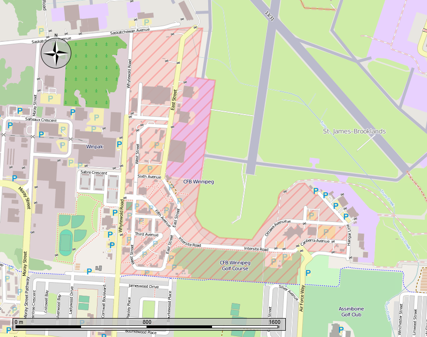 Open Street Map showing CFB Winnipeg. The runways to the top of the image are the Winnipeg International Airport. From the Marble program.